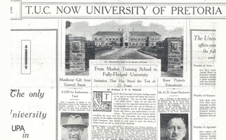 An article appearing in a newspaper regarding the TUC becoming the independent University of Pretoria on 10 October 1930